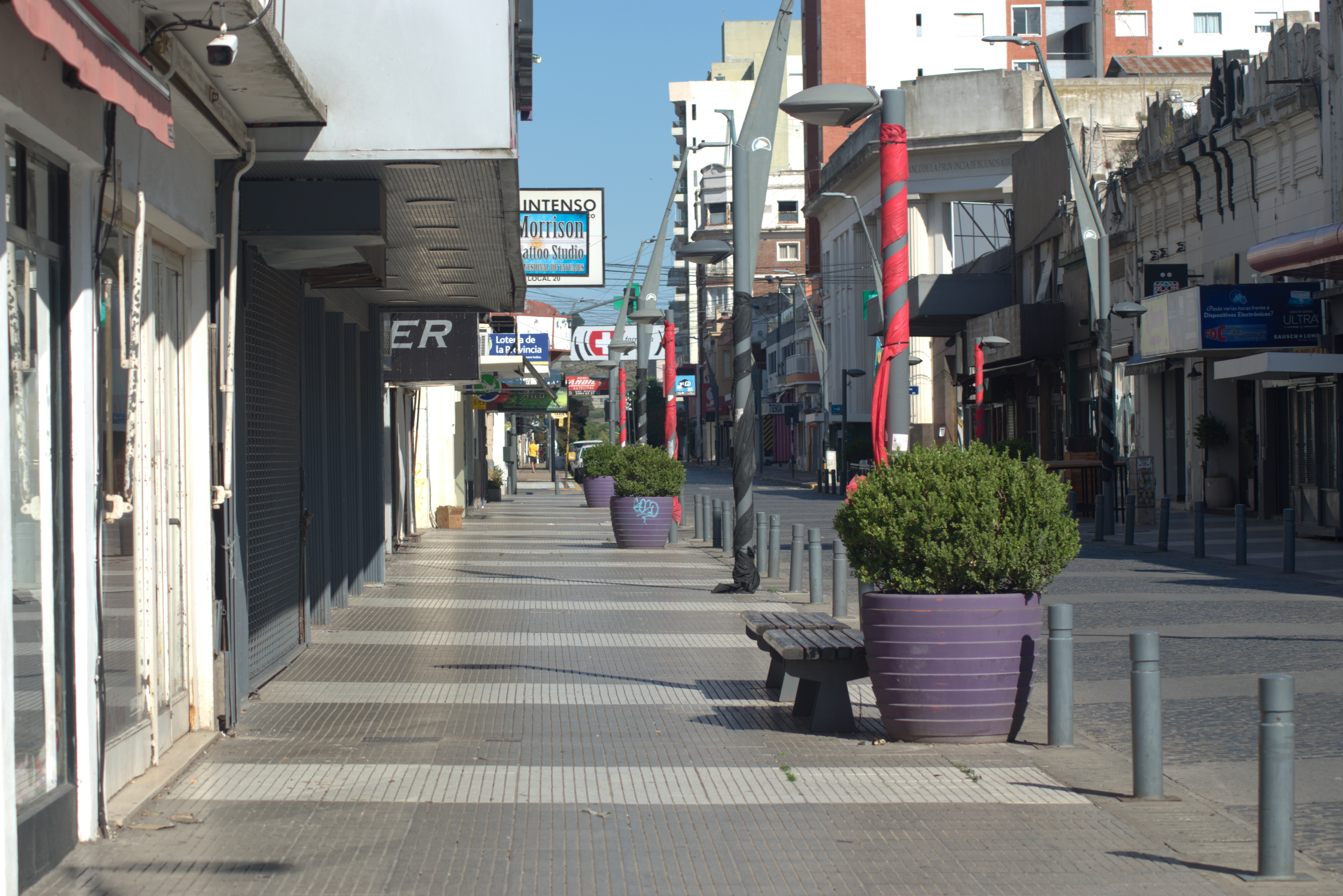 Empty 9 de Julio Street in Tandil, Argentina. Only a pedestrian can be seen in the background going to buy groceries, among the few activities allowed during quarantine.